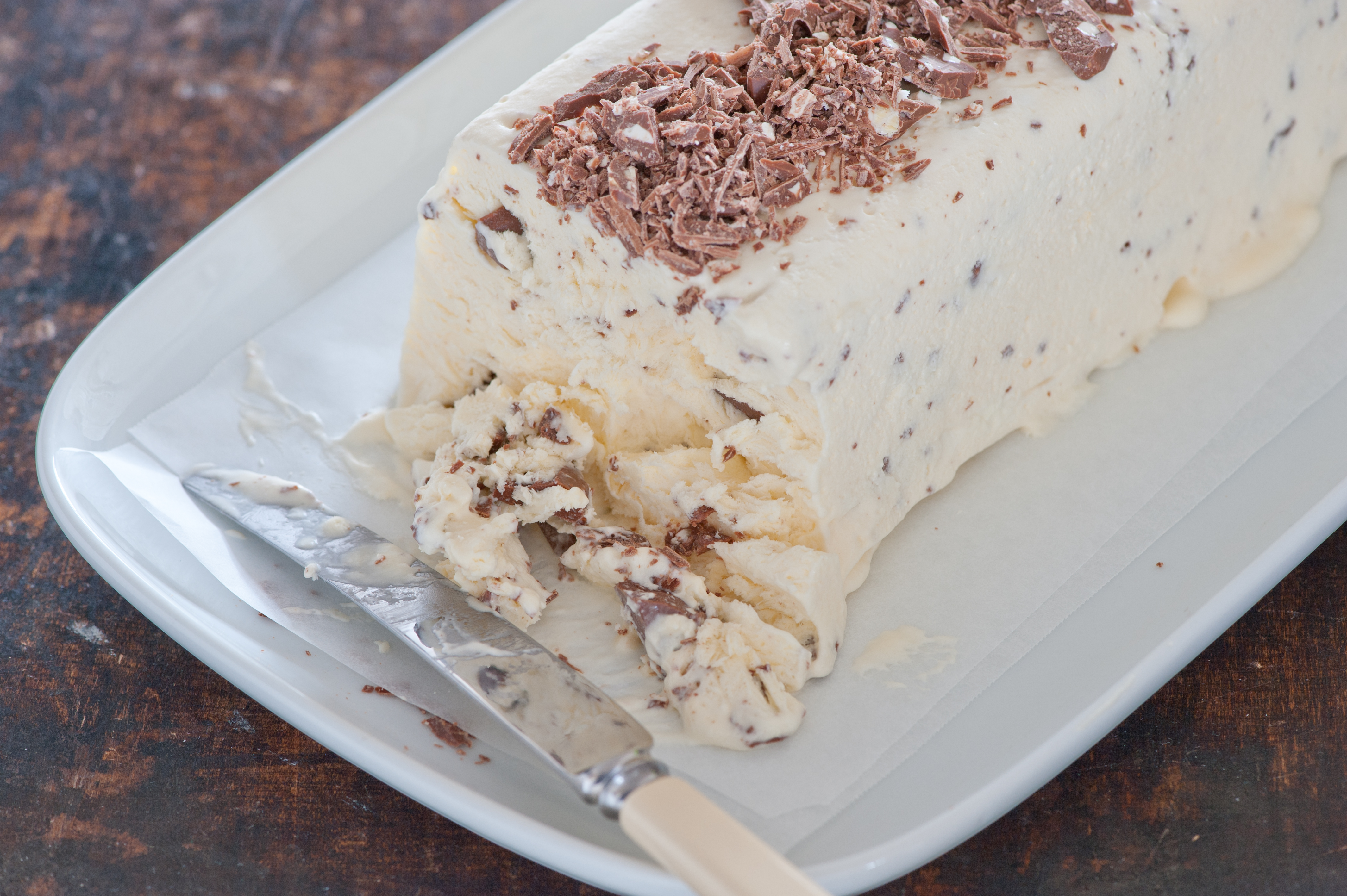 toblerone ice cream cake